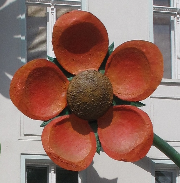 The Ärztehaus Treptow (german for: doctor’s house, health center Treptow) is a listed villa in Berlin-Alt-Treptow, Germany, built in the 1880ths/1890ths. In 2012 there created the pop Art-artist Sergej Alexander Dott the art object Riesenblumen (german for: giant flowers) with ten up to 12 meters high sculptures of medicinal plants.